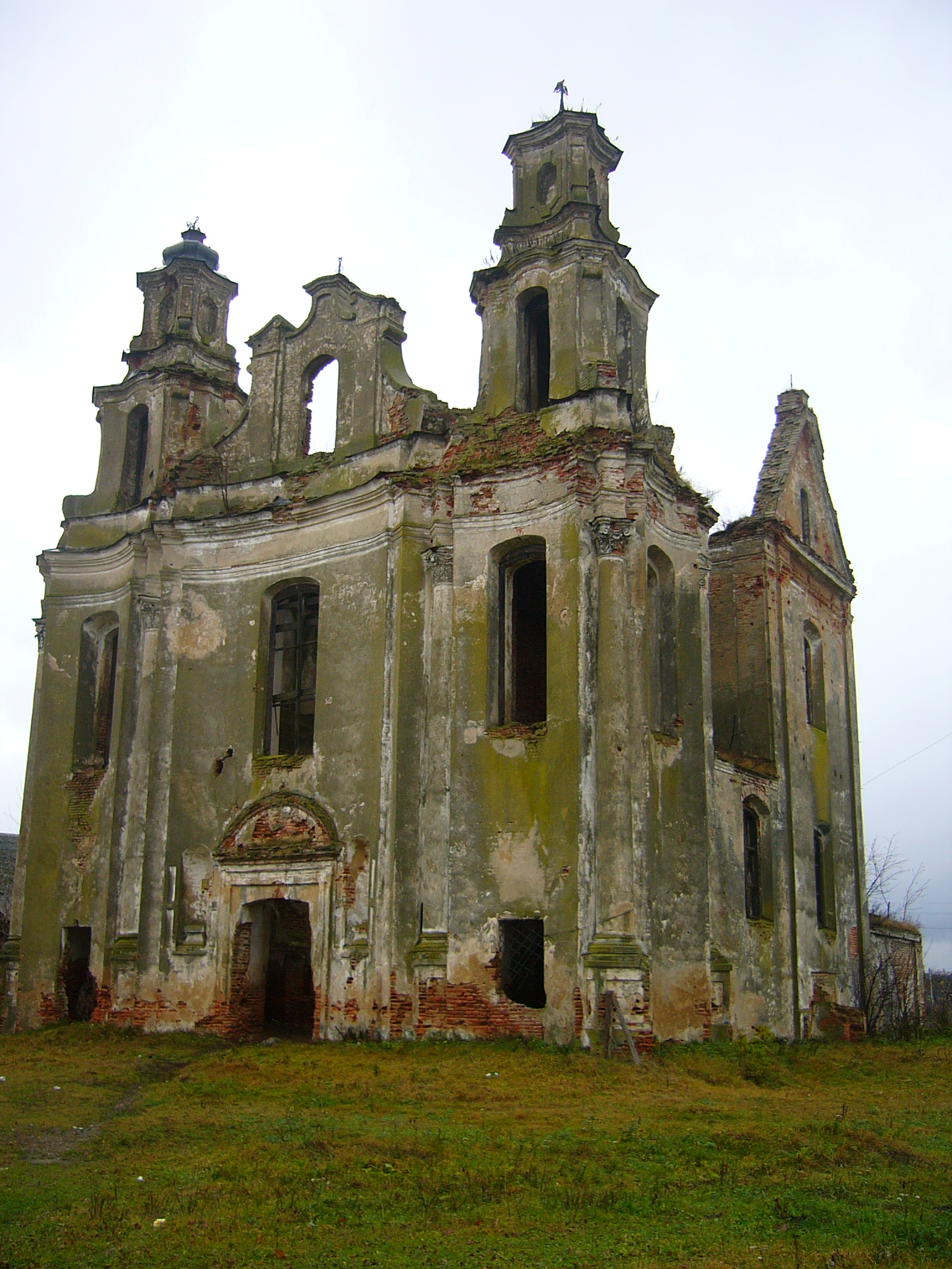 Dominican Cathedral in Smolyany near Orsha, Vitebsk region, Belarus - built in the 17 century